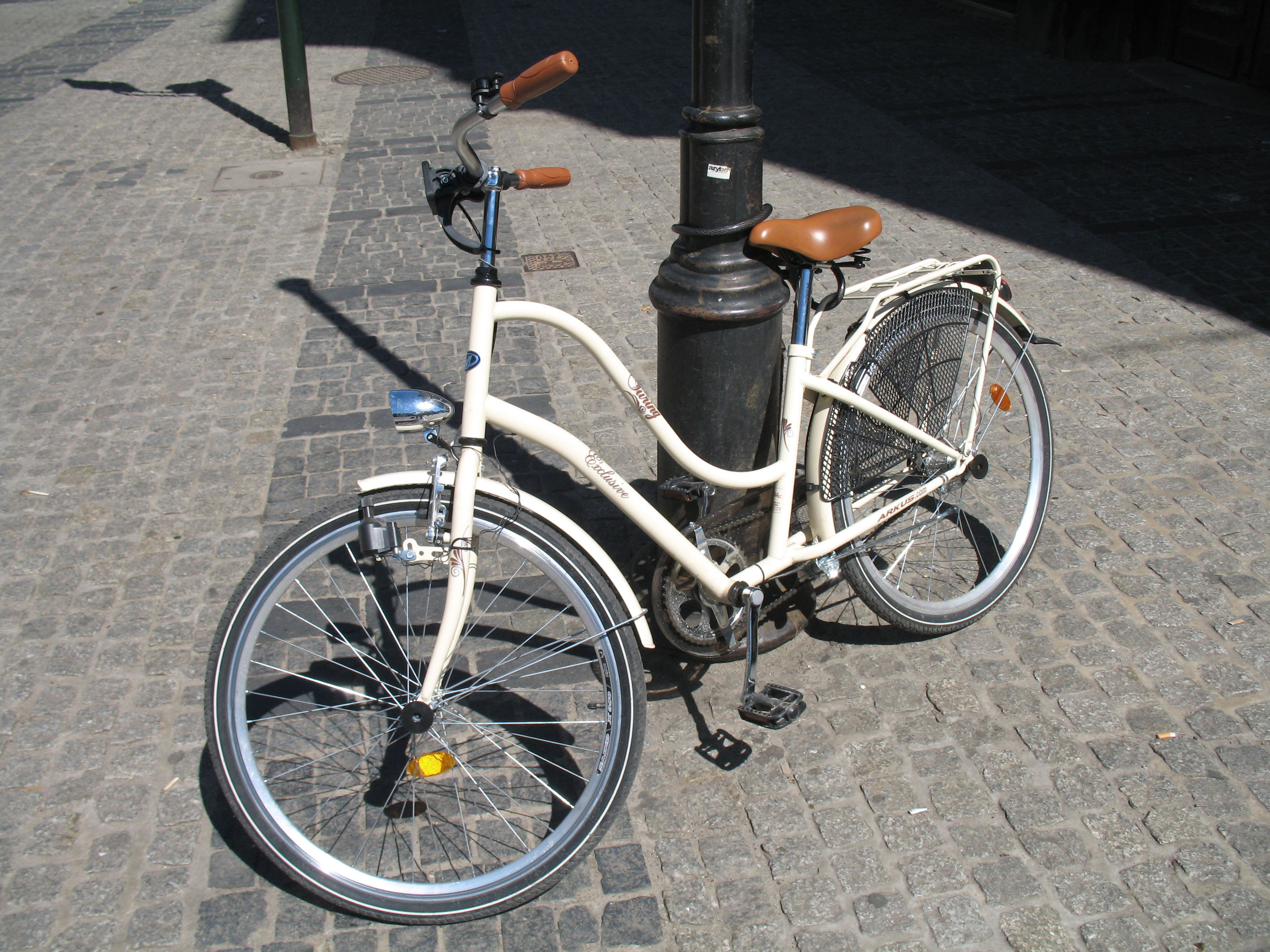 Delta Touring Exclusive bicycle in Kraków, Poland. Built in Poland.